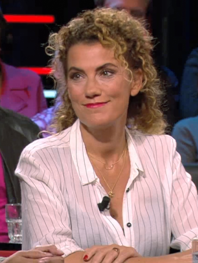 Tatum Dagelet (2017)